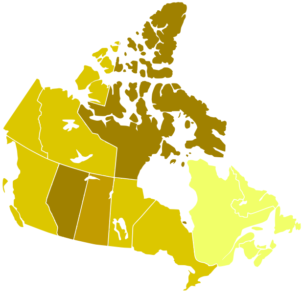 Map of Canadian provinces and territories by population growth rate